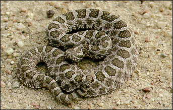 A Massasauga rattlesnake (Sistrurus catenatus edwardsi).